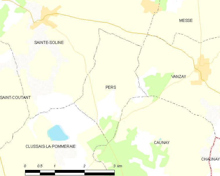 Map of French municipality Pers